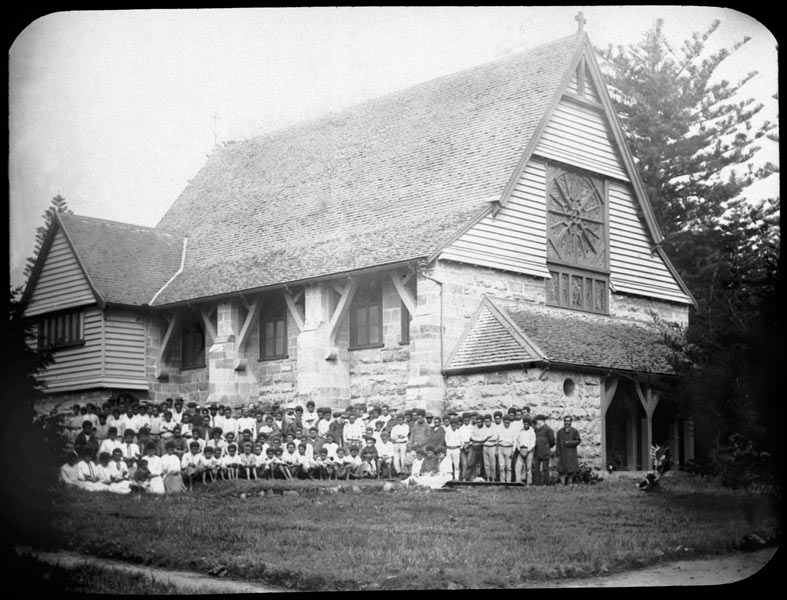 Group of aboriginals/islanders gathered outside Patteson Memorial Chapel, Norfolk Island Dated: by 11/05/1908 Digital ID: [14086_a005_a005SZ847000026r 14086_a005_a005SZ847000026r] Rights: We'd love to hear from you if you use our photos. Many other photos in our collection are available to view and browse on our website using Photo Investigator.